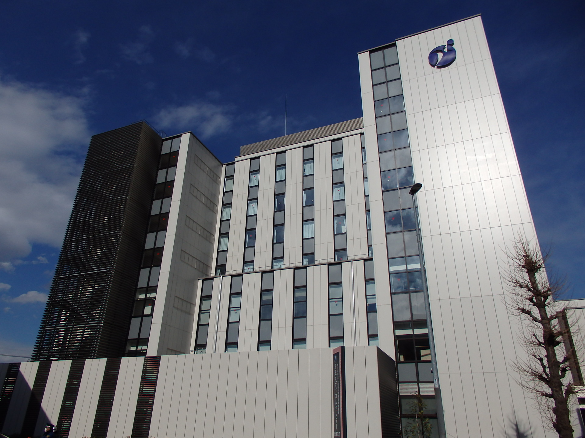 Saitama Medical Center